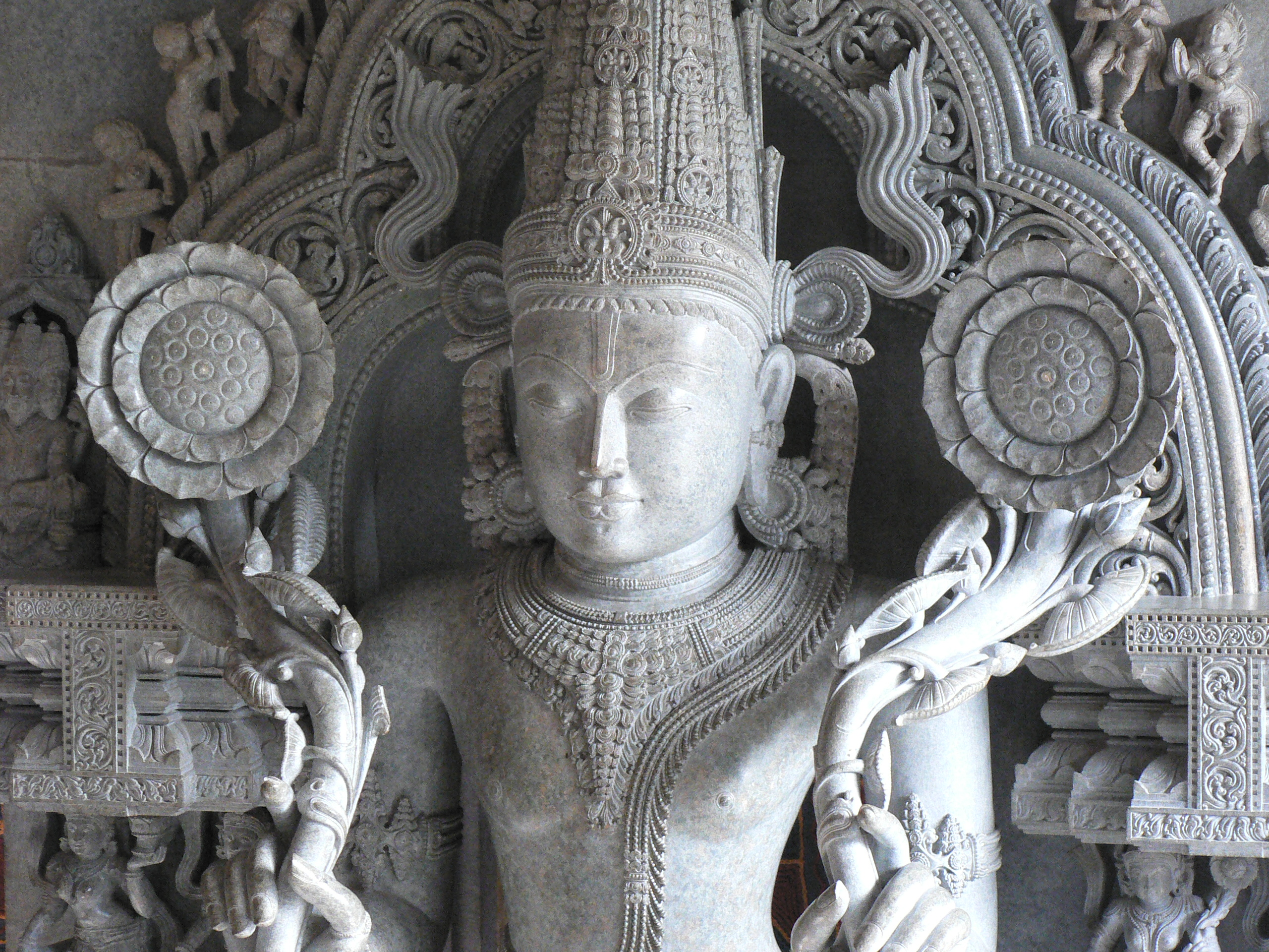 A wooden statue of Surya in New Delhi, India.